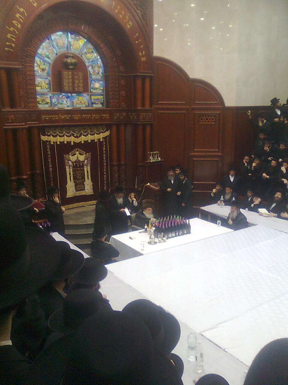 Tish of Sadigura Rebbe in Bnei Brak, 3 Marcheshvan 5772